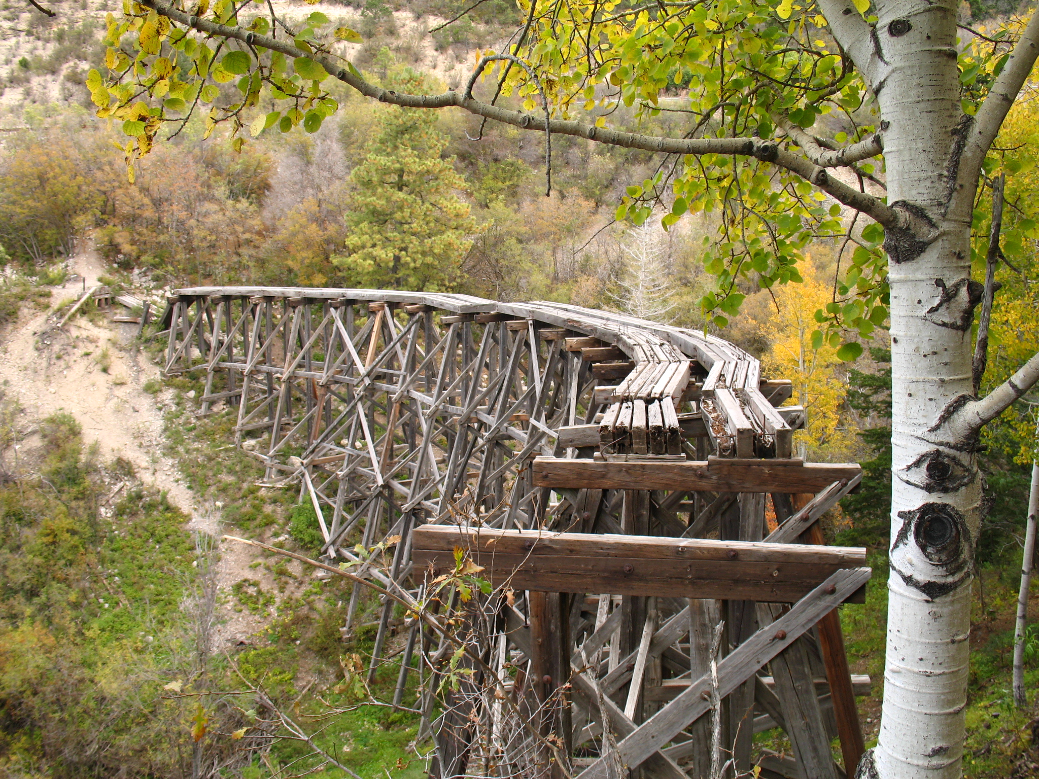 Abandoned railroad trestle north of Cloudcroft, New Mexico, USA